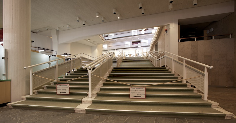 The staircase of the south entrance in the Staatsbibliothek zu Berlin (building Potsdamer Strasse). Due to cost issues, it had been closed only shortly after the opening of the building in 1979.